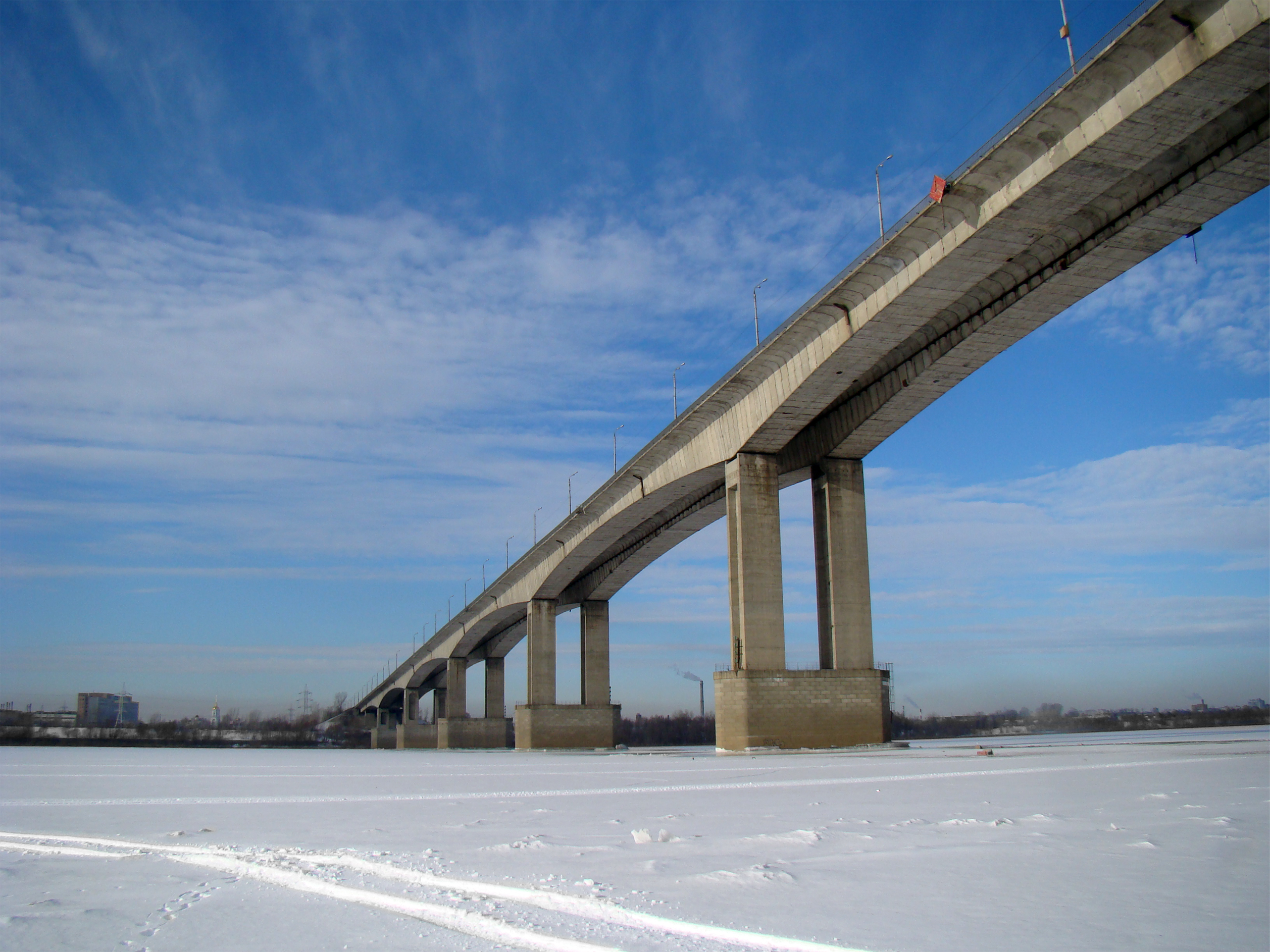 Nizhny Novgorod. Myza (Myzinsky) bridge